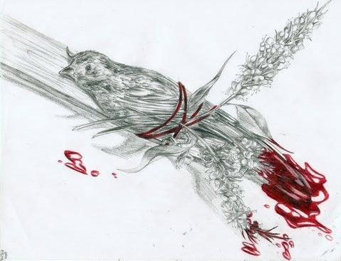 A sketch in pencil and red marker on paper of an Aspergillum based on Leviticus 14.